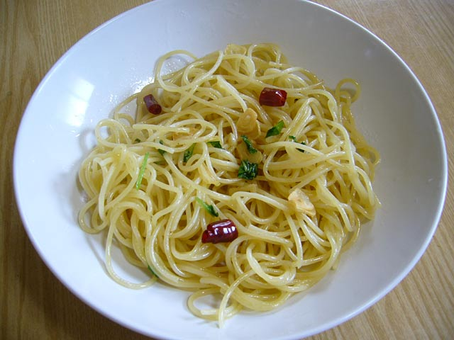 Spaghetti all' aglio, olio e peperoncino